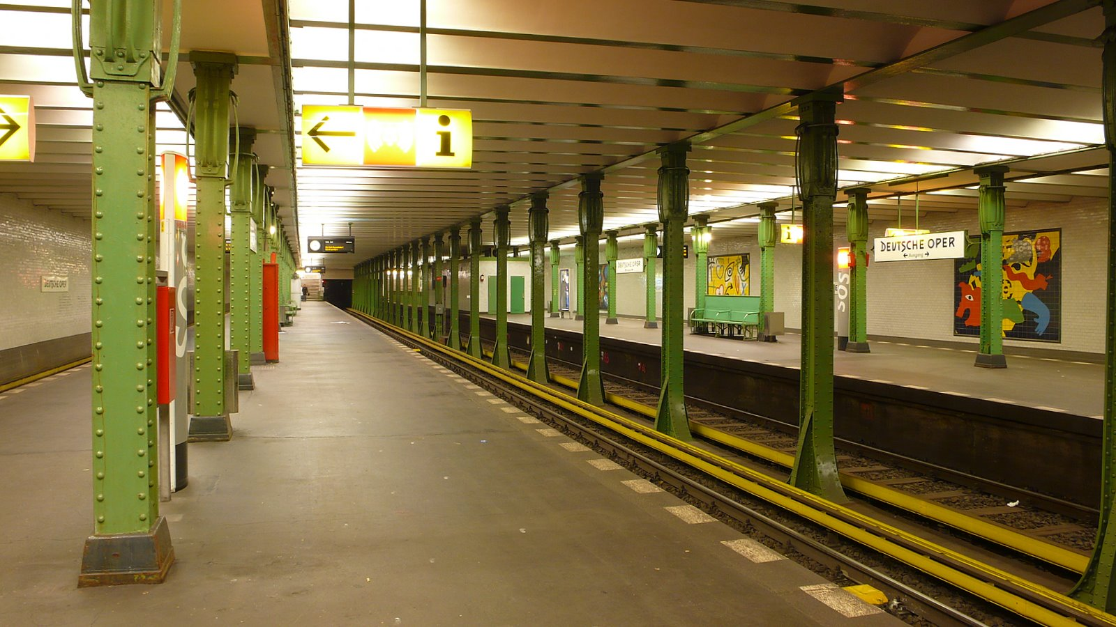 Subway Deutsche Oper Berlin